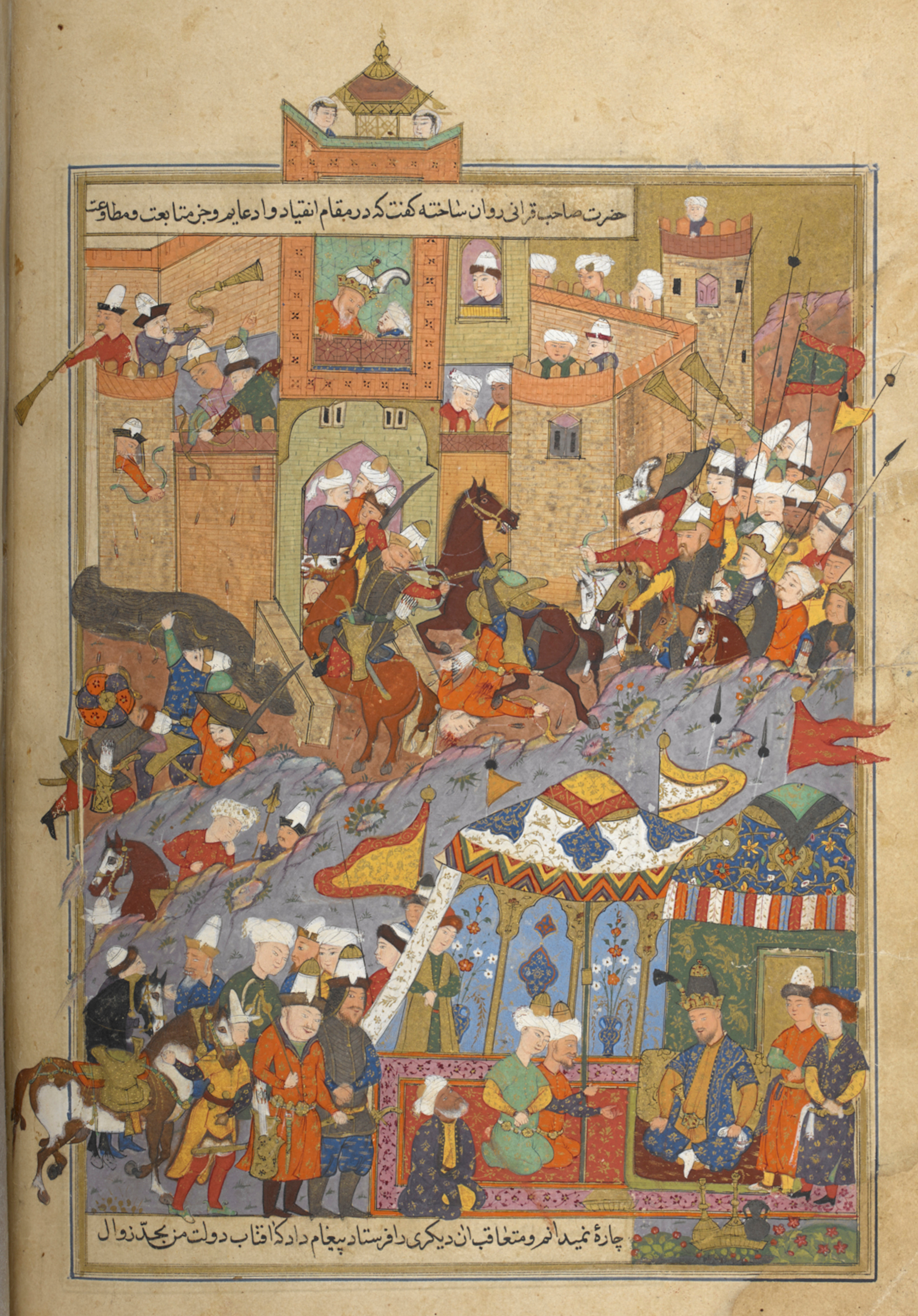 Timur receives envoys during his attack on Balkh in 1370.